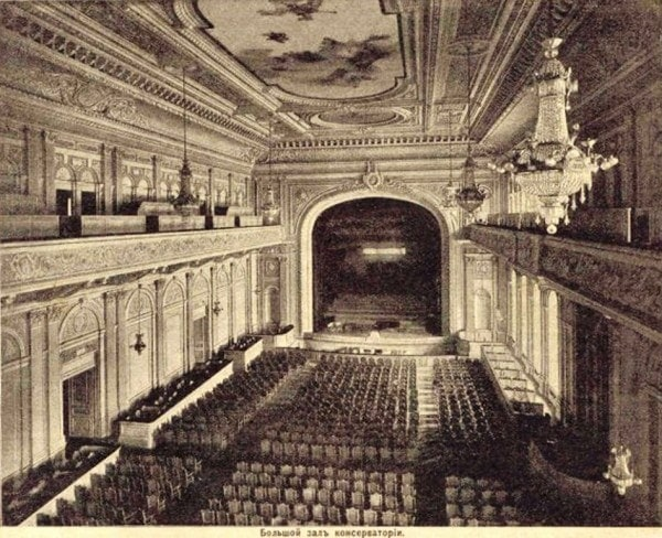 Great Hall of the Saint Petersburg Conservatory